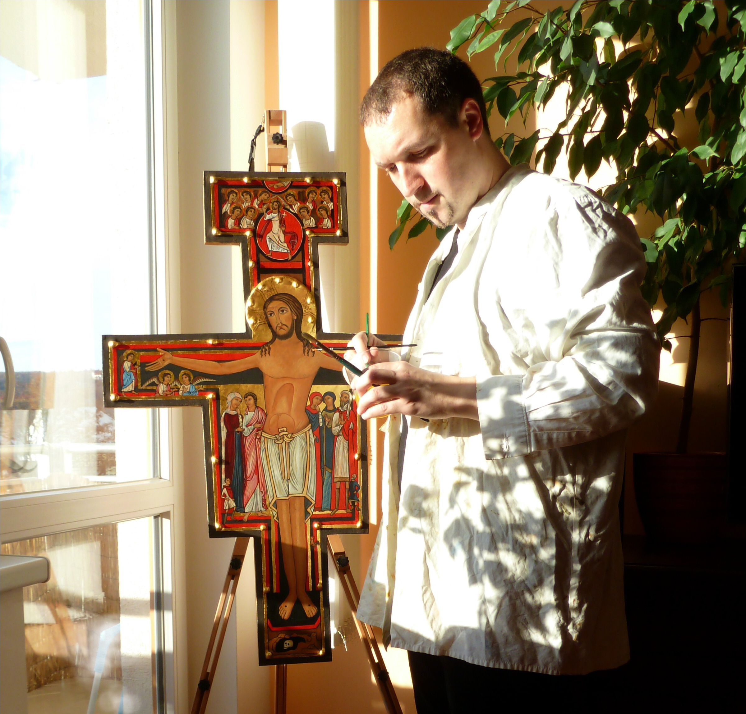 iconographer Martin Damian building San Damiano Cross